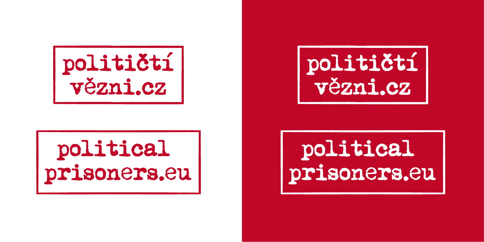 Logo of Political Prisoners.eu